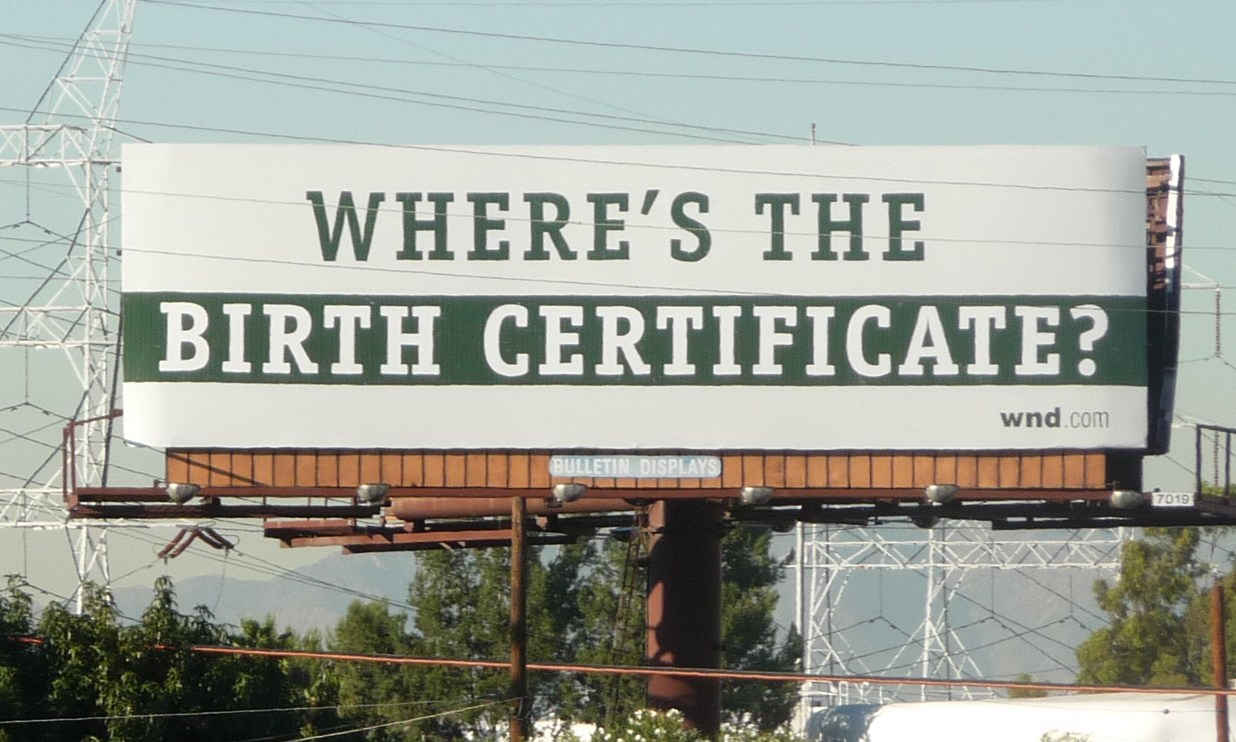 Billboard challenging the validity of Barack Obama's birth certificate. The billboard is located in South Gate, and photo taken on November 12, 2010.